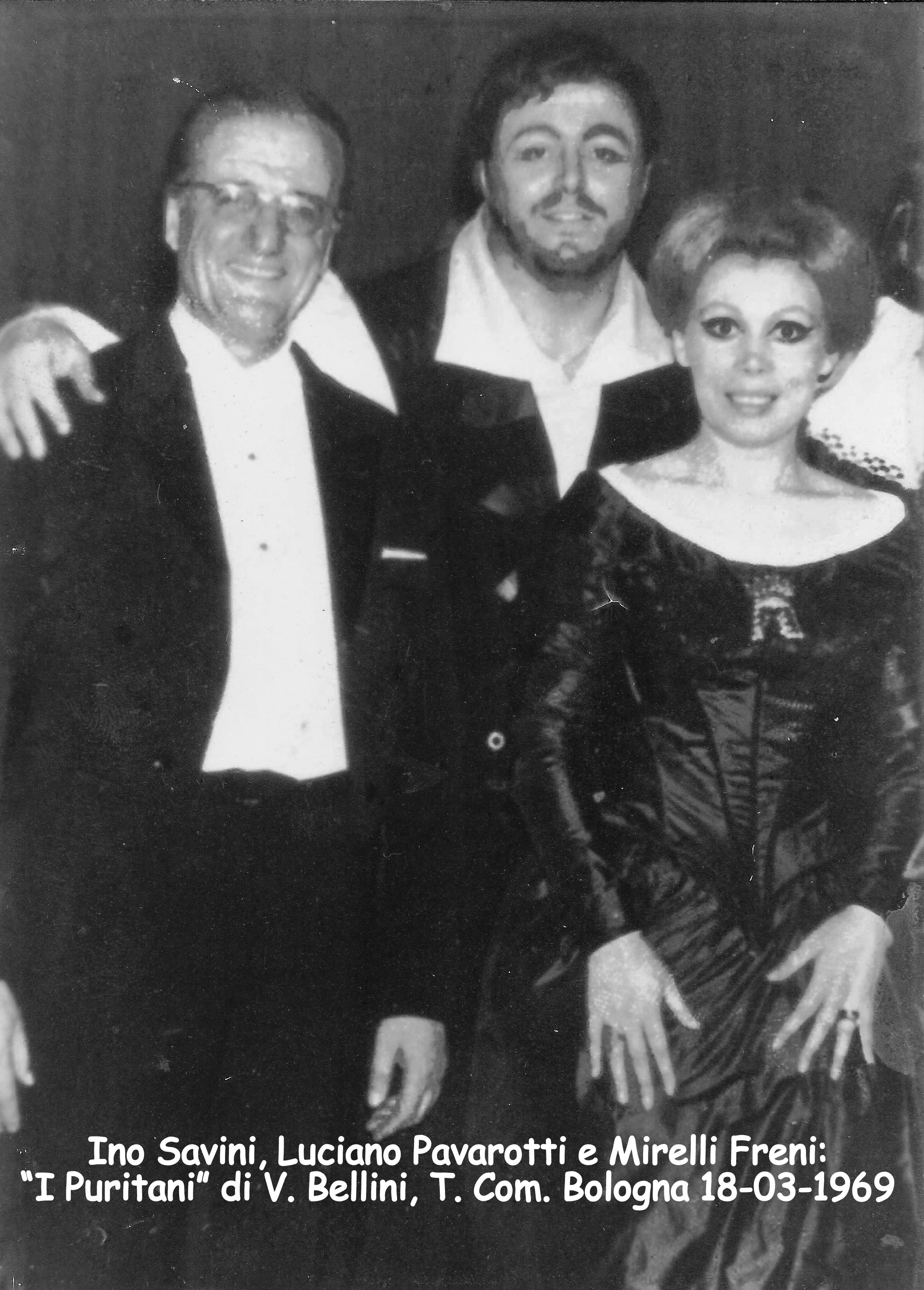 Conductor Ino Savini, tenor Luciano Pavarotti and soprano Mirella Freniː "I Puritani" by Vː Bellini at Teatro Comunale Bologna 1969-03-18